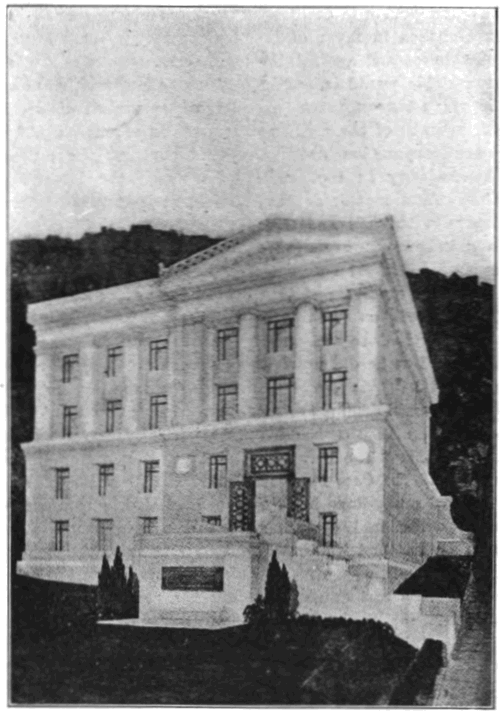 University of Pittsburgh School of Mines